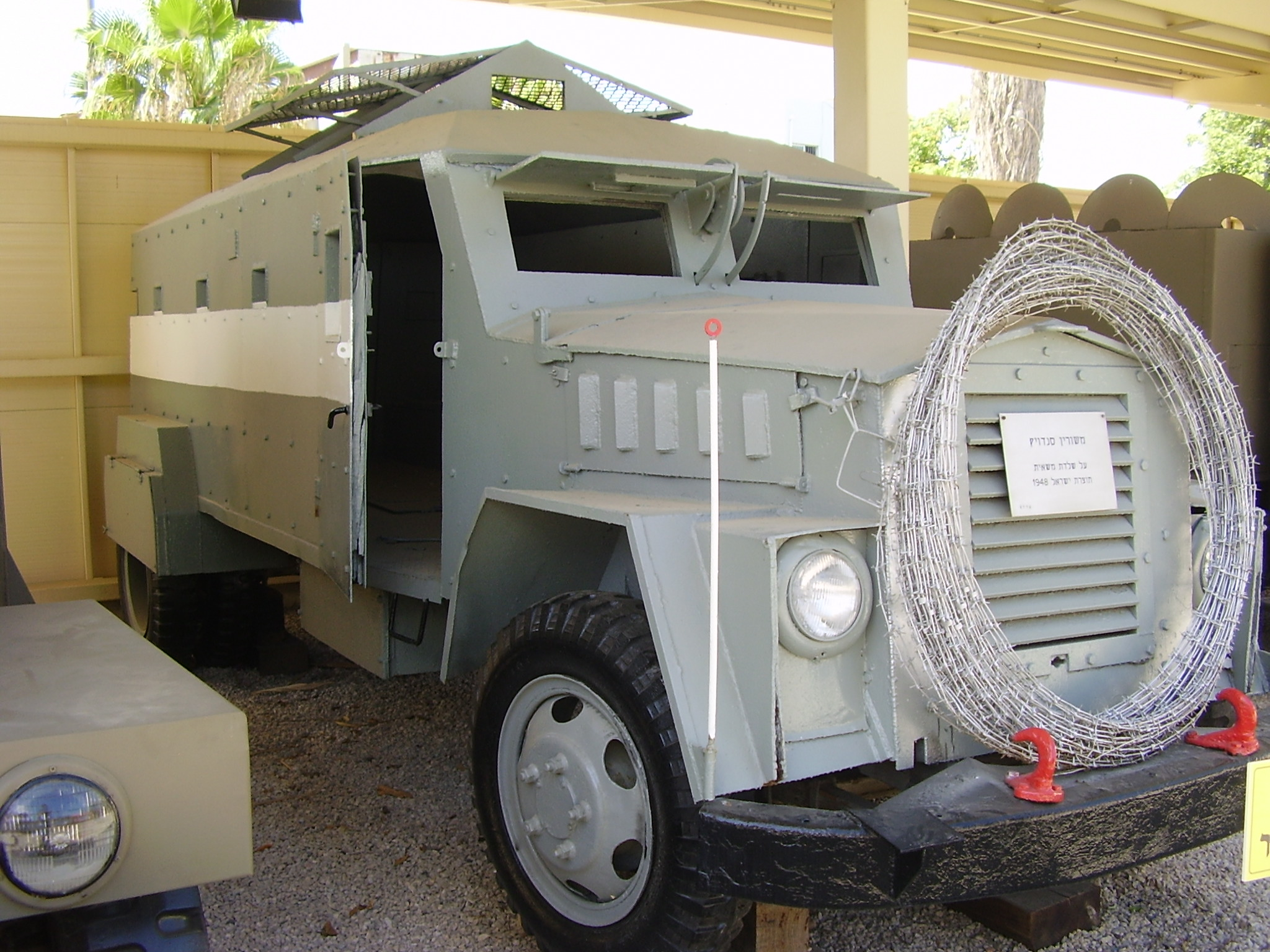 armored \"sadwich\" vehicle from the independence war (1948)